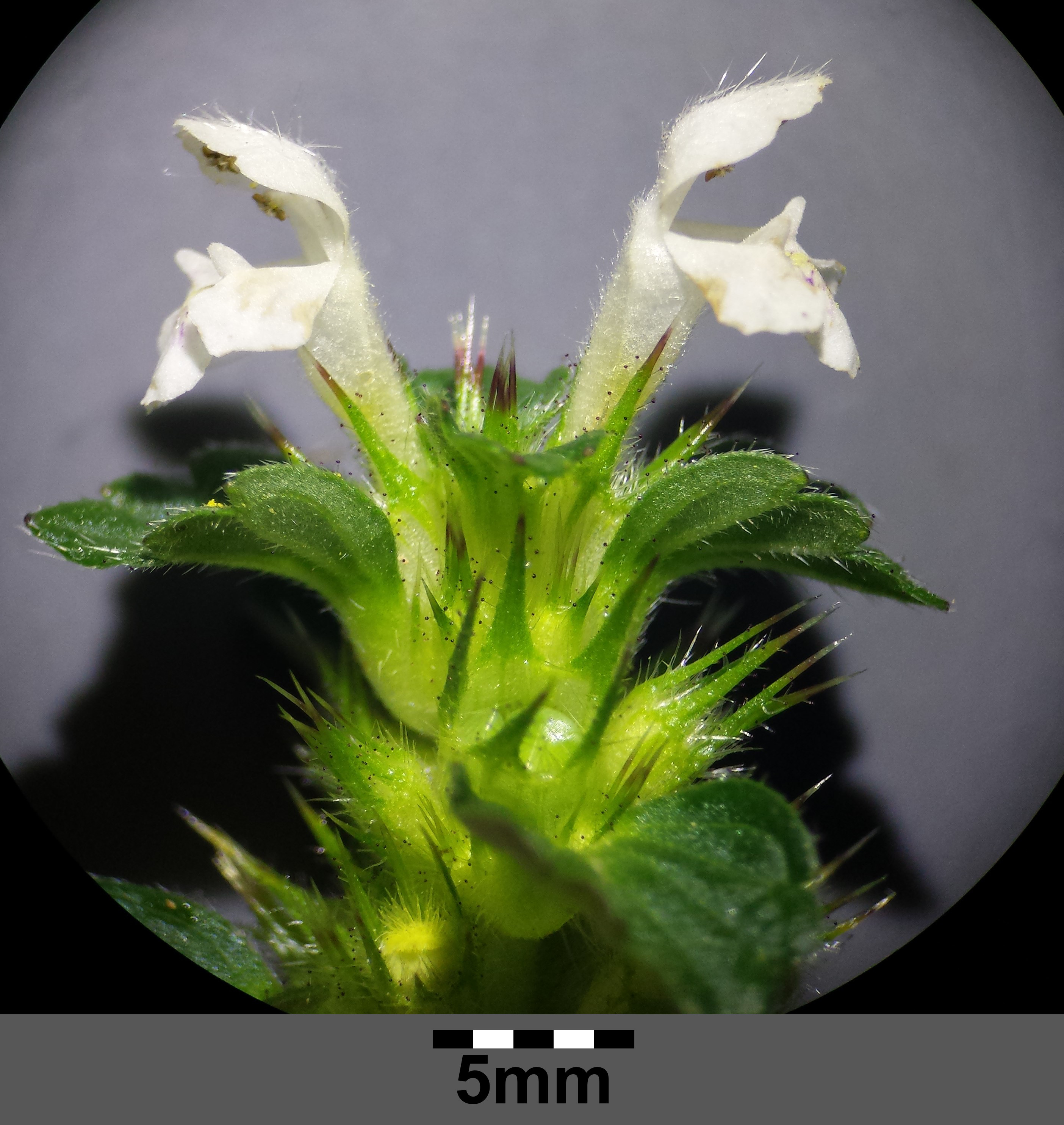 Inflorescence Taxonym: Galeopsis tetrahit ss Fischer et al. EfÖLS 2008 ISBN 978-3-85474-187-9 Location: near Arbesbach, Groß-Gerungs, district Zwettl, Lower Austria - ca. 850 m a.s.l. Habitat: border of a field